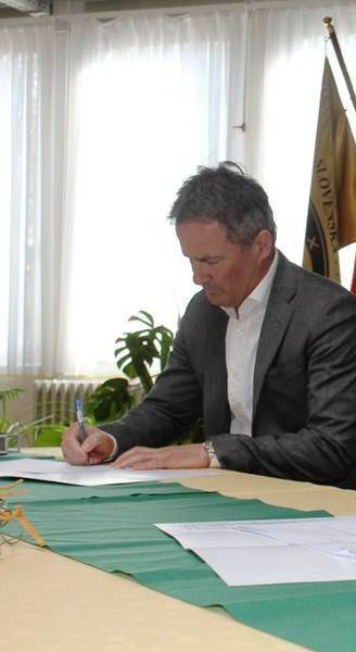 Primož Ulaga (1962-), Slovene ski jumper and sport official